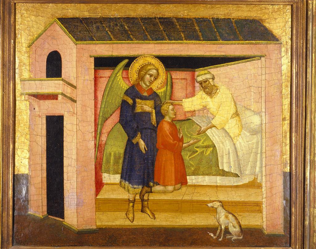 Angelo Puccinelli, Tobit Blessing His Son, Tobias, Accompanied by Archangel Raphael, 1390s, Philbrook Museum of Art, Tulsa, OK.